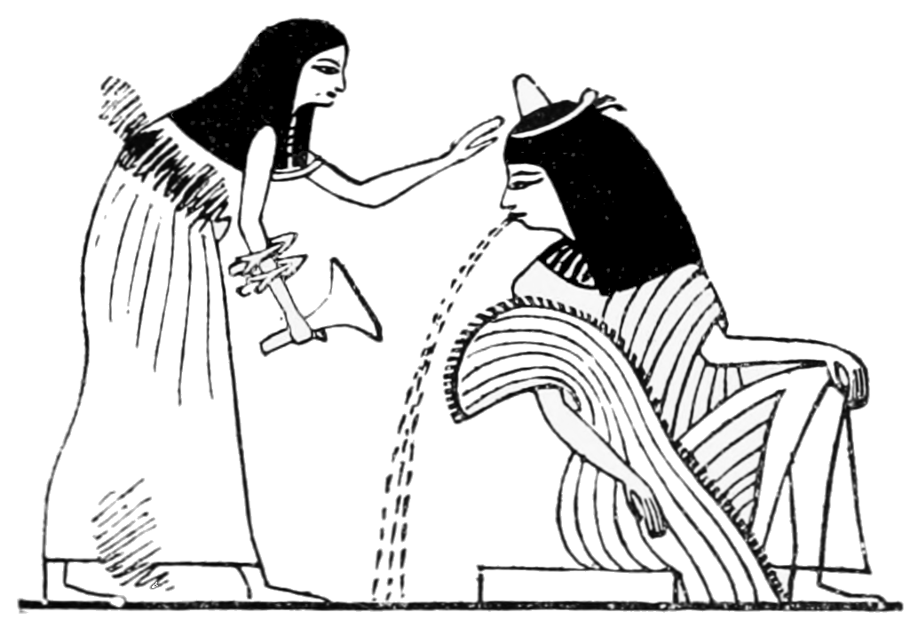 A woman intoxicated